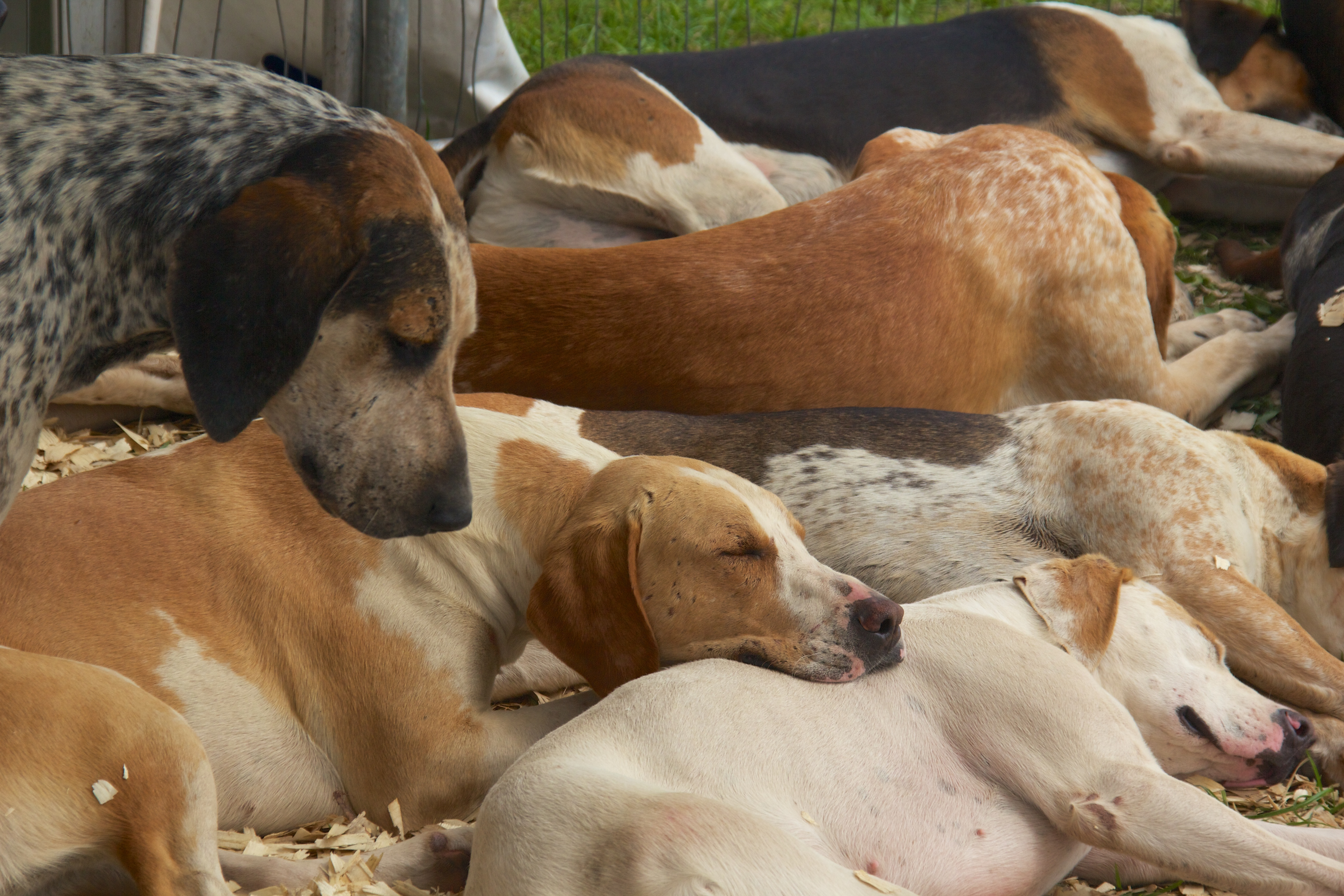 English Foxhounds. Cheshire Game and Country Fair 2014.